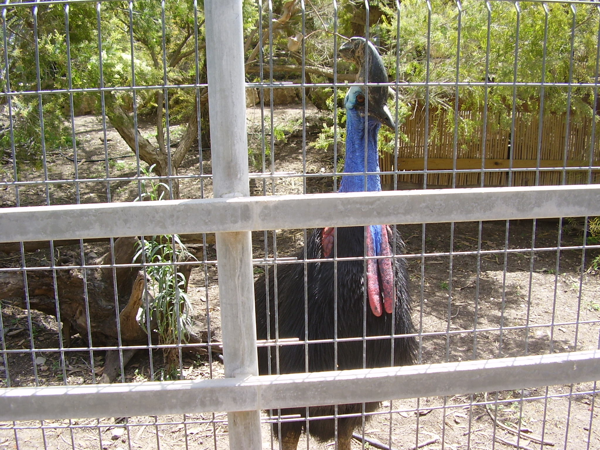 Cassowary in australia park, (guru park), israel